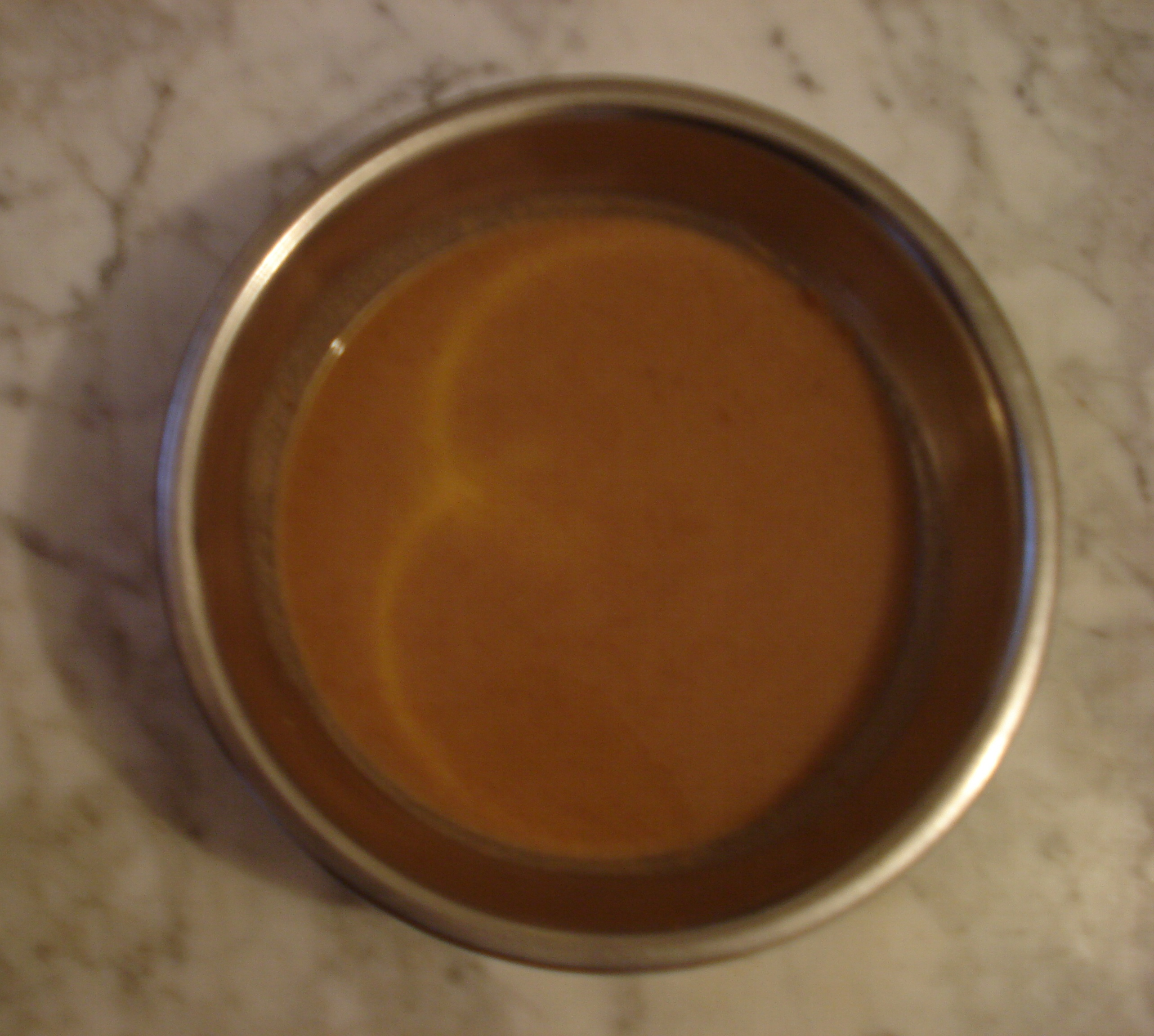 Dardoura.